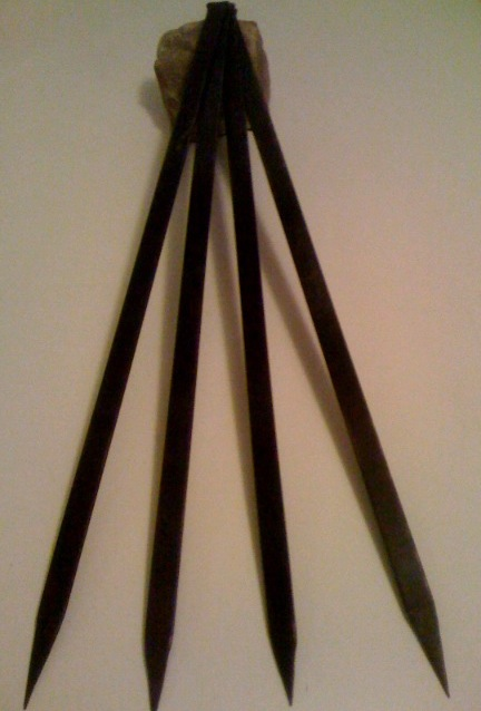 Iron skewers for making Adana kebap.